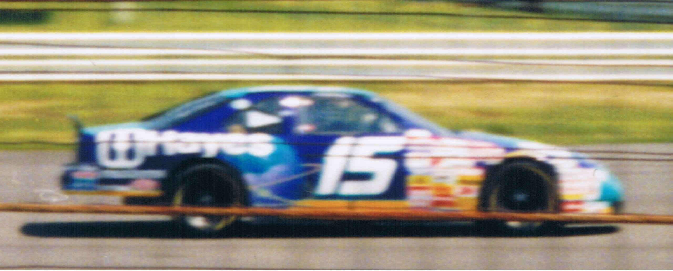 Wally Dallenbach, Jr at Pocono Raceway in the Winston Cup Series, June 1996